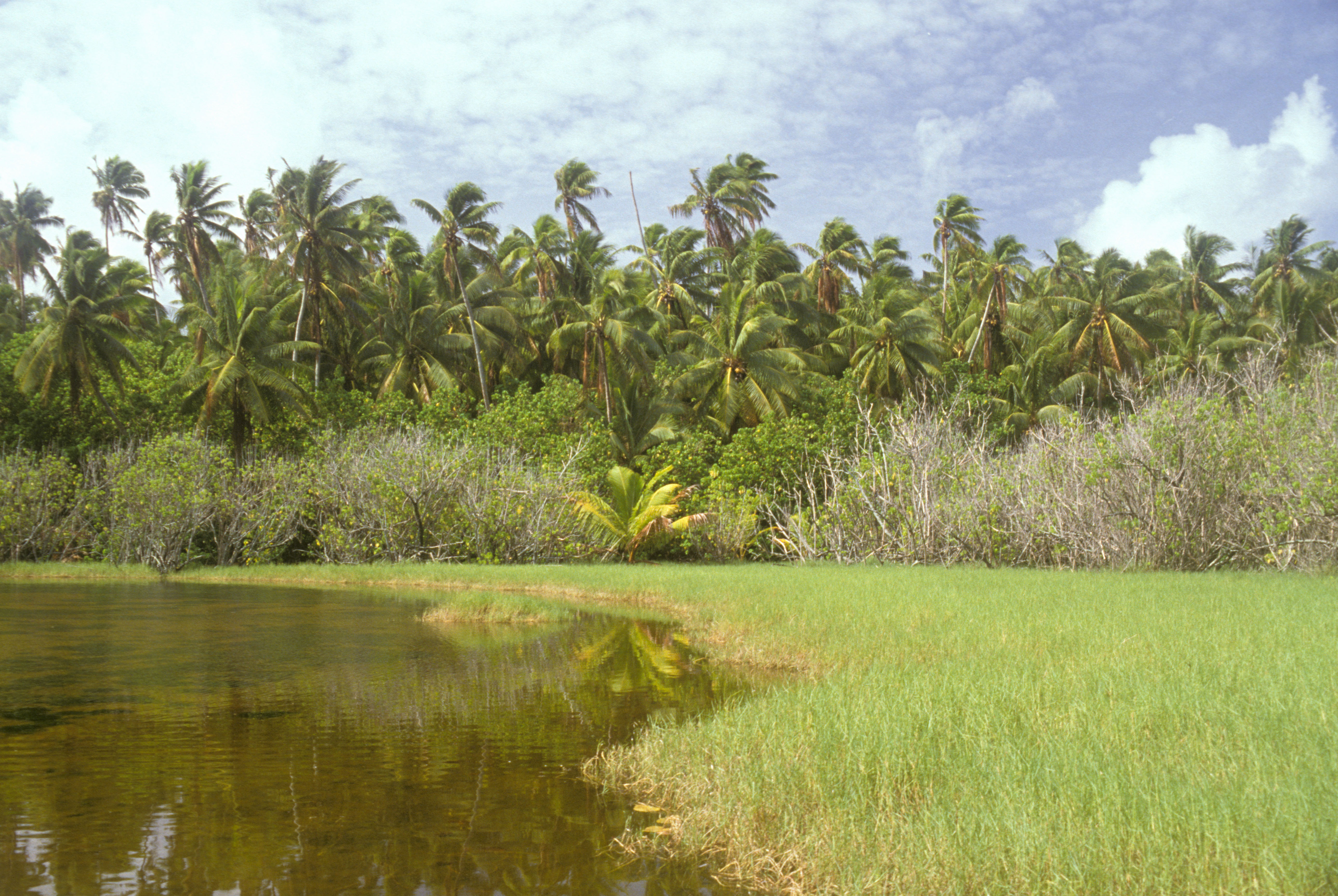 The largest of the several small interior lakes on Flint Island, Line Islands, Kiribati. It is not much larger than an average-sized pond.